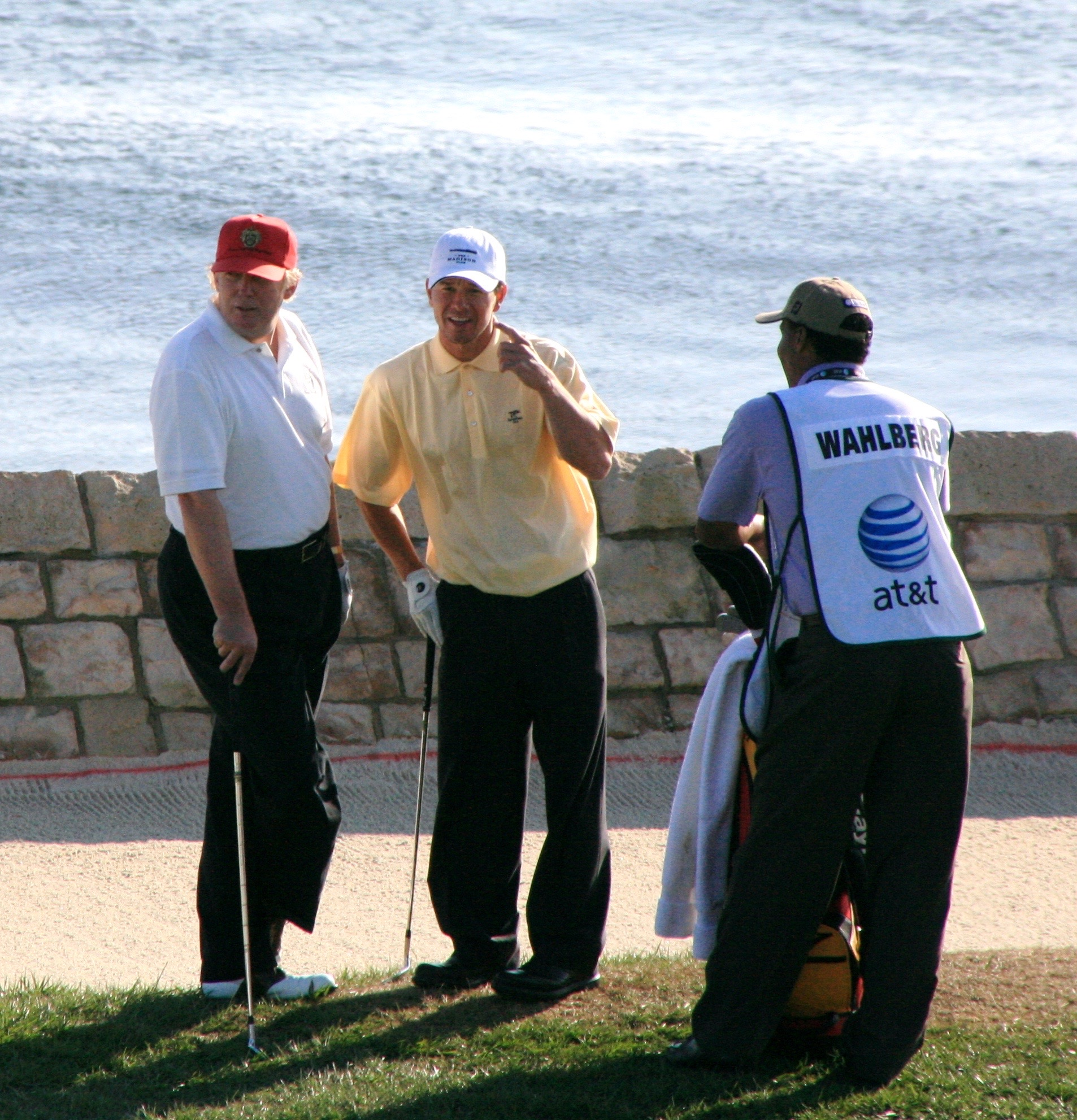 The AT&T National Pro-Am Tournament was this weekend. I went to cheer on a friend, and see what craziness the star players might bring on. I did see the comic George Lopez accidentally ricochet a ball off a spectator’s head… but I did not get that photo… On the 18th hole, Trump shuffled over to Marky Mark for some pointers. Moments earlier, a woman ran across the fairway to pose with Mark, beer in hand. The caddy kept a huge smile throughout the episode as security escorted her off. When Trump then biffed his shot, I had to shout out “You’re Fired!” I couldn't resist...